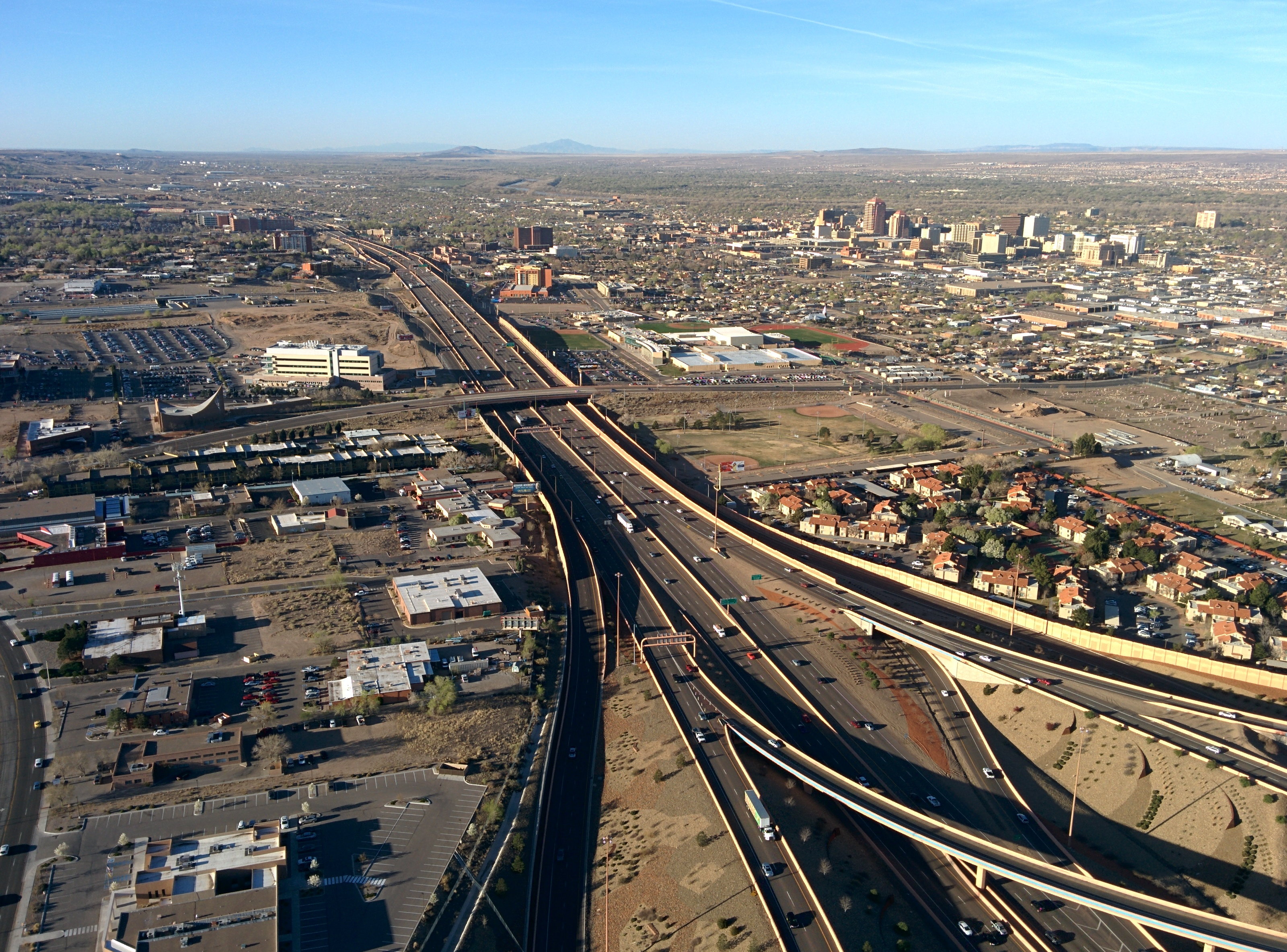 An aerial view of Interstate 25 (unsigned U.S. Route 85) as it intersects with Interstate 40 . The view is from the north, looking south, down 25 from above 40.